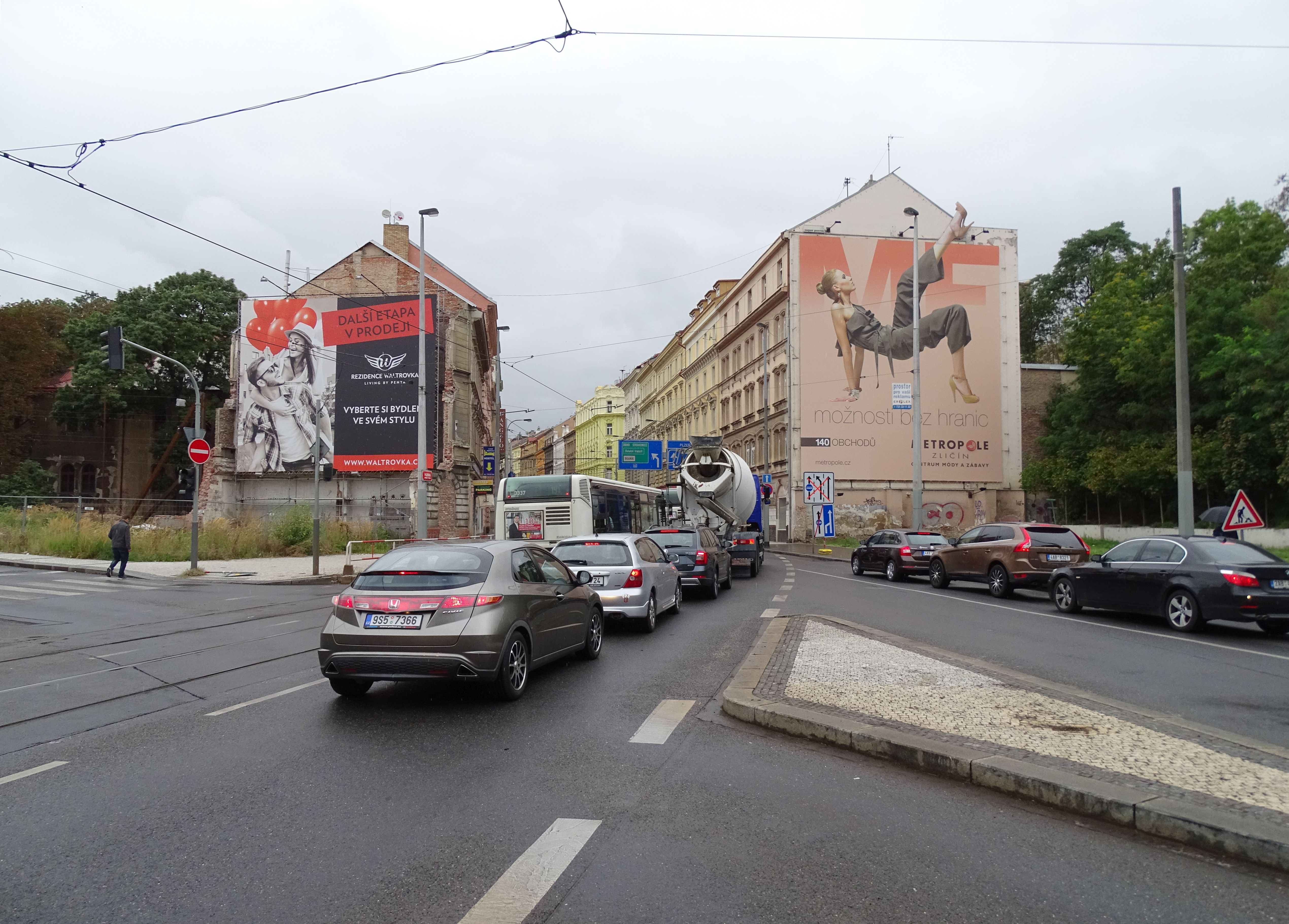 Prague-Smíchov, Czech Republic. Plzeňská street, tram track reconstruction, a traffic congestion.